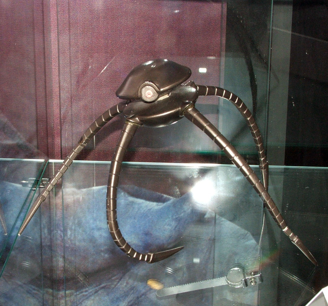 260506-027 Doctor Who Experience